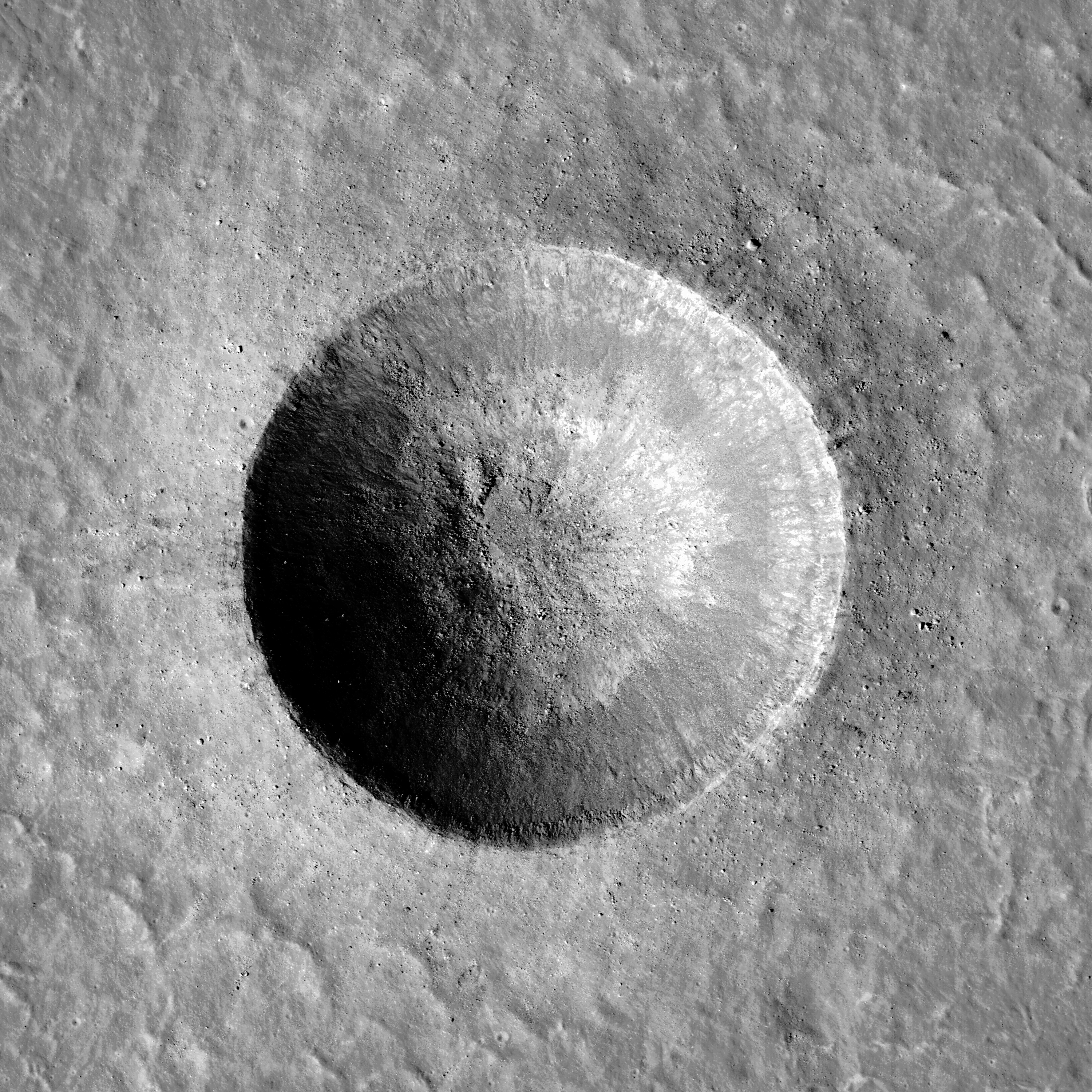 Crater Linné on the Moon, in Mare Serenitatis. Its diameter is 2.2 km. Photo by Lunar Reconnaissance Orbiter, taken with Narrow Angle Camera (NAC) 18 January 2014 from altitude 131 km. Sun elevation is 39.3°. North is approximately up. Contrast is increased.